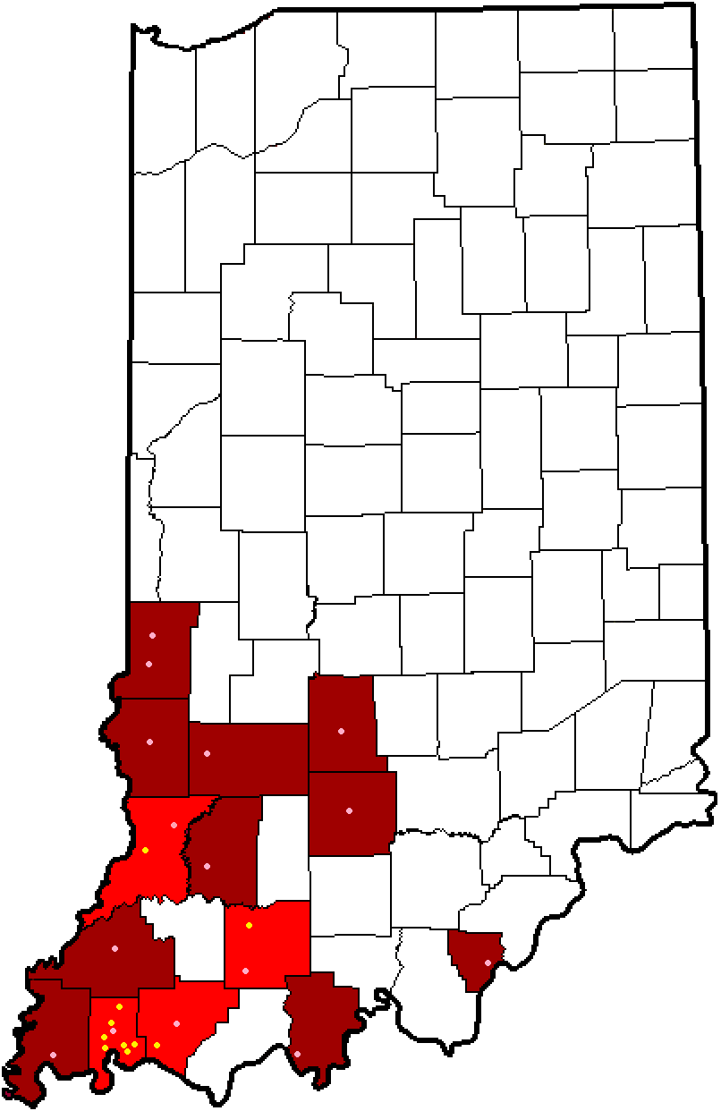 Southern Indiana Athletic Conference as of Fall 2020